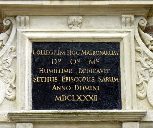 Salisbury - Matrons College This plaque can be found above the main door of the Matrons College. An image of the college can be found here